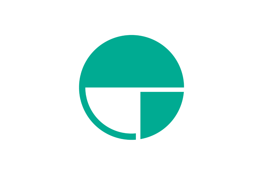 Flag of Nagano, Nagano